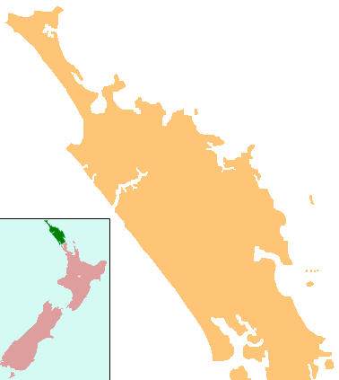 Locator map for Northland, New Zealand